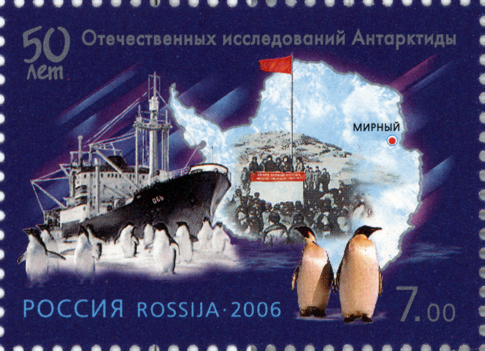 Postage stamp of Russia. 2006. 50th Anniversary of Russian Antarctic Exploration. 1956. "Ob" near Antarctic shore. Mirny station panorama.